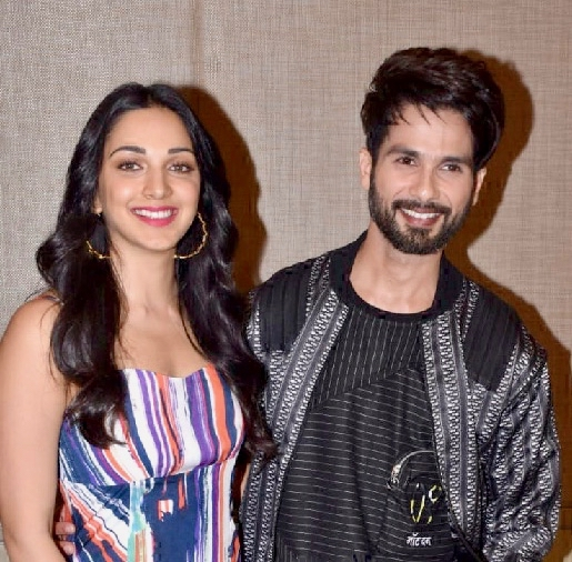 Shahid Kapoor and Kiara Advani promoting Kabir Singh in 2019